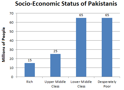 Socio-Economic Situation of Pakistanis